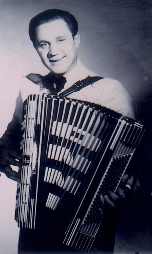 Onni Laihanen finnish accordionplayer